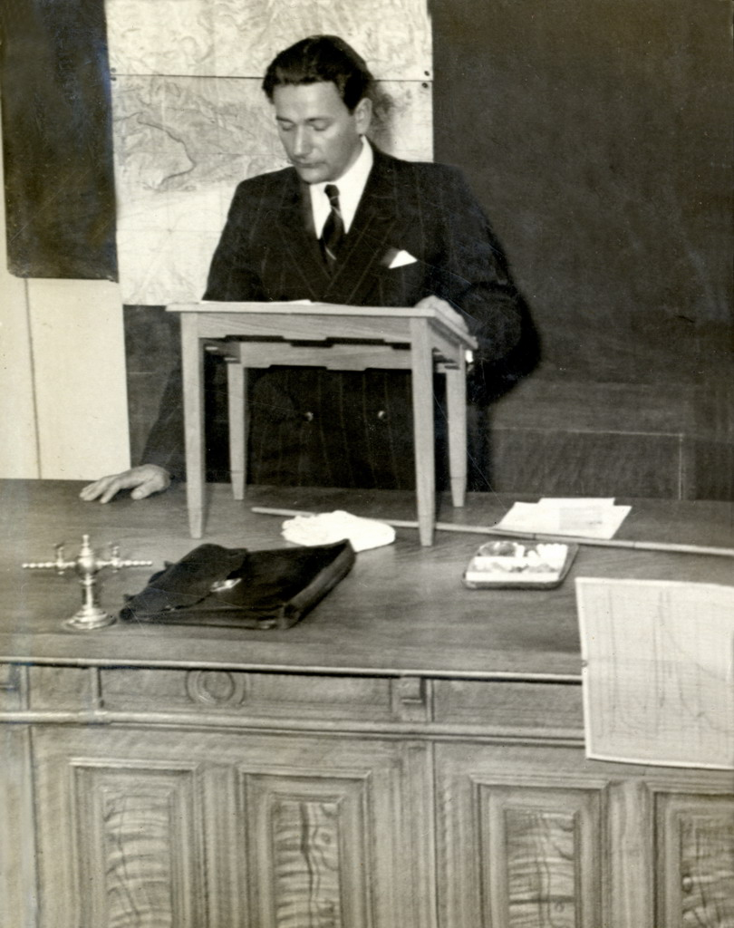 Hubert Kessler during lecture